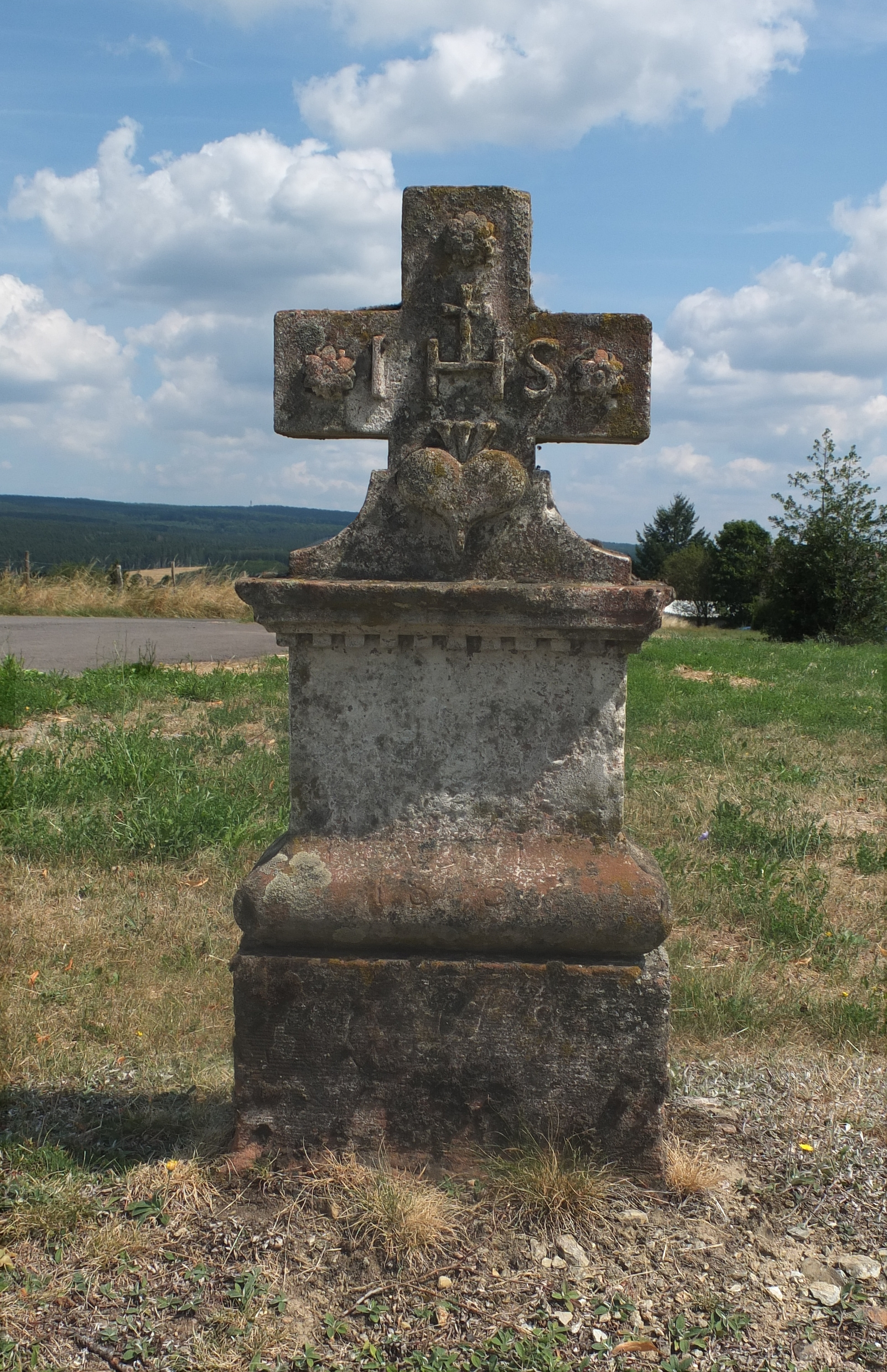 Wayside cross (1836) at the entrance to the town of Schillingen